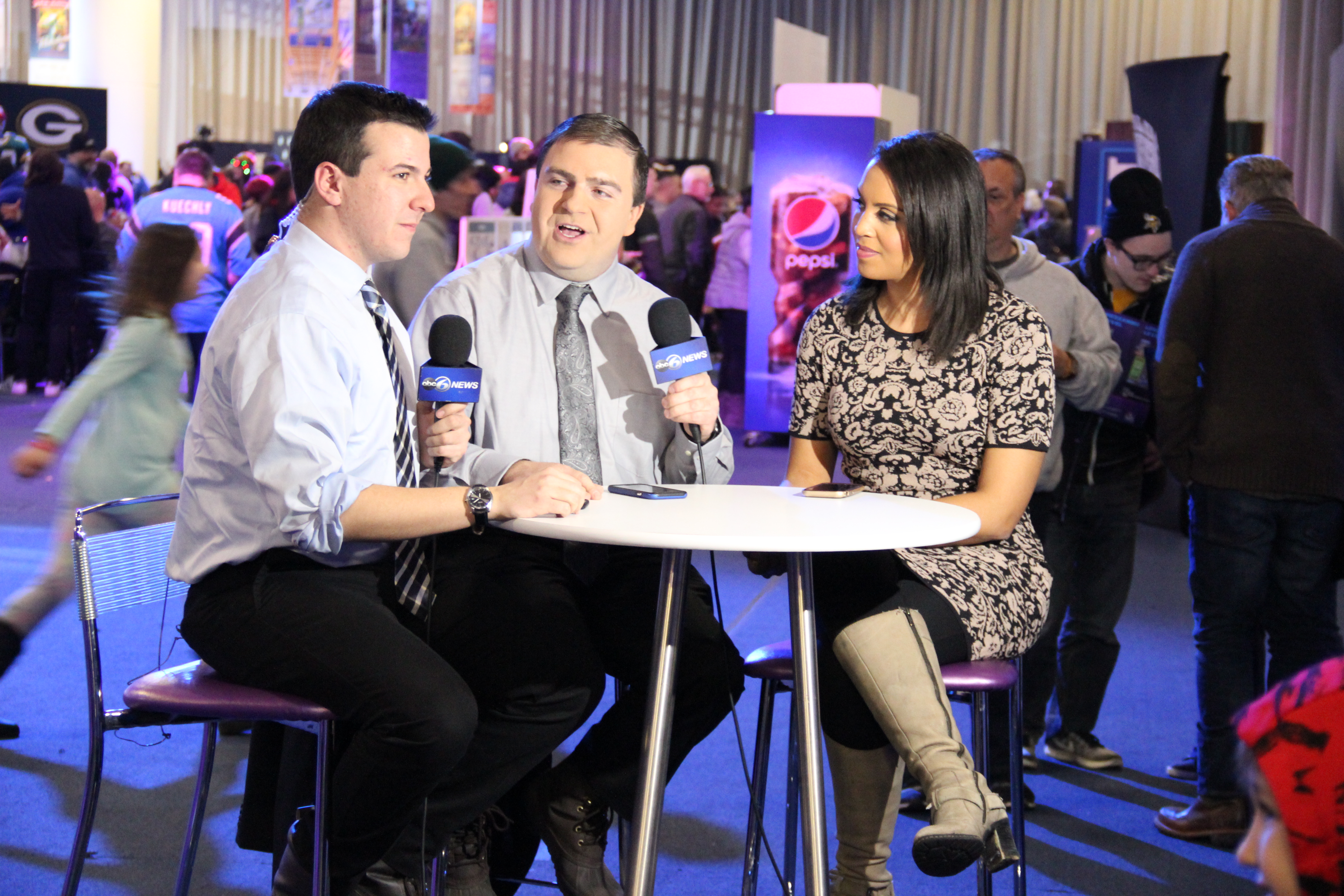 Reporters produce a live broadcast inside the Minneapolis Convention Center before Super Bowl LII.